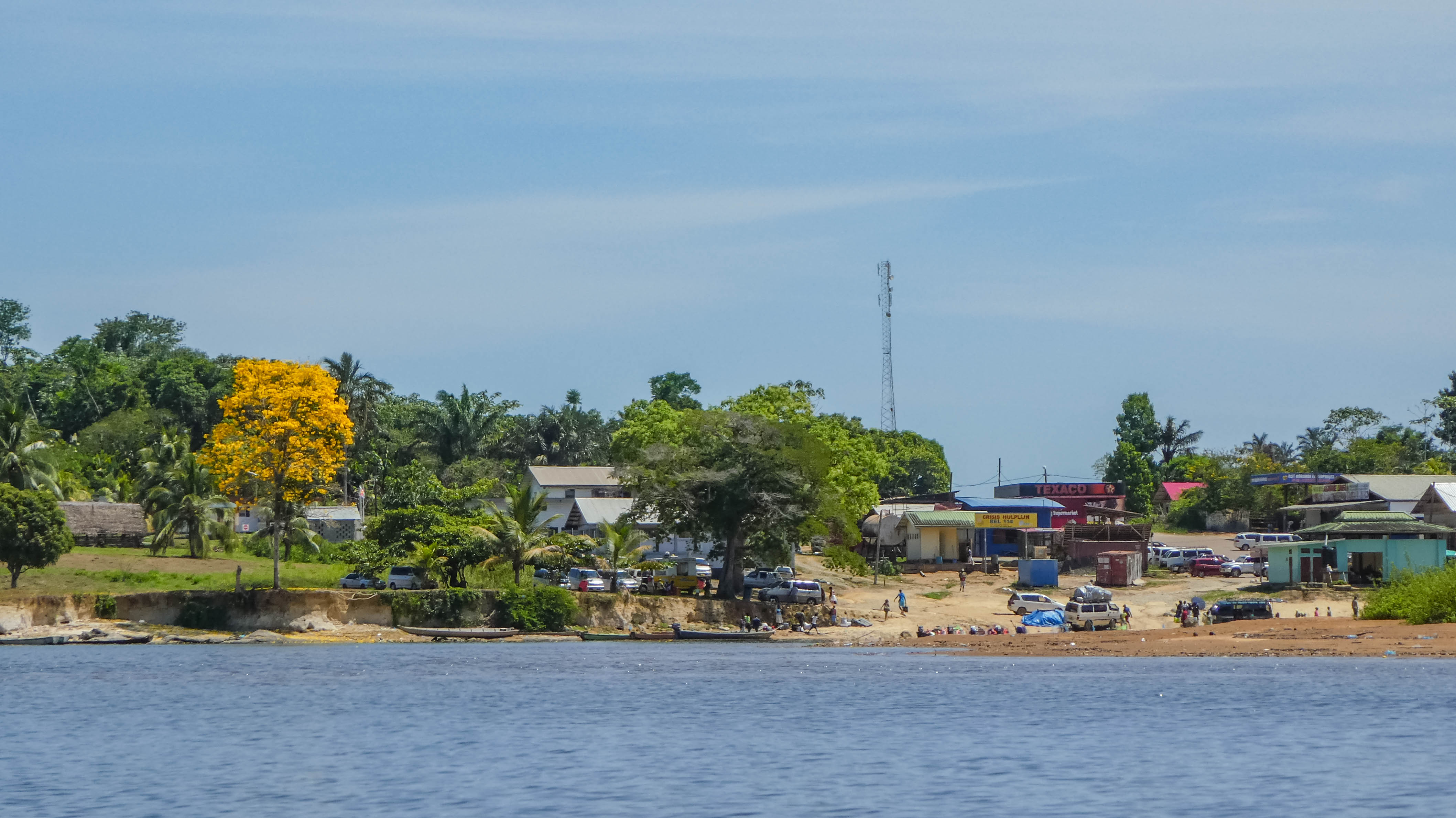 The harbor of Atjoni or Adjoni, near Pokigron in Suriname, where the road stops and travel has to continue in boats